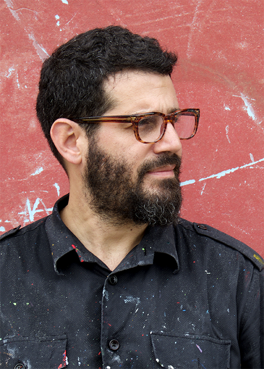 Portrait